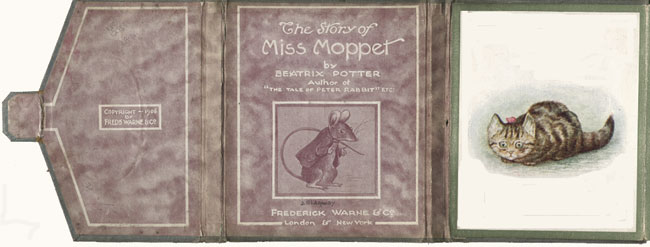 Photo of the interior of the wallet and first illustration of the original version of The Story of Miss Moppet